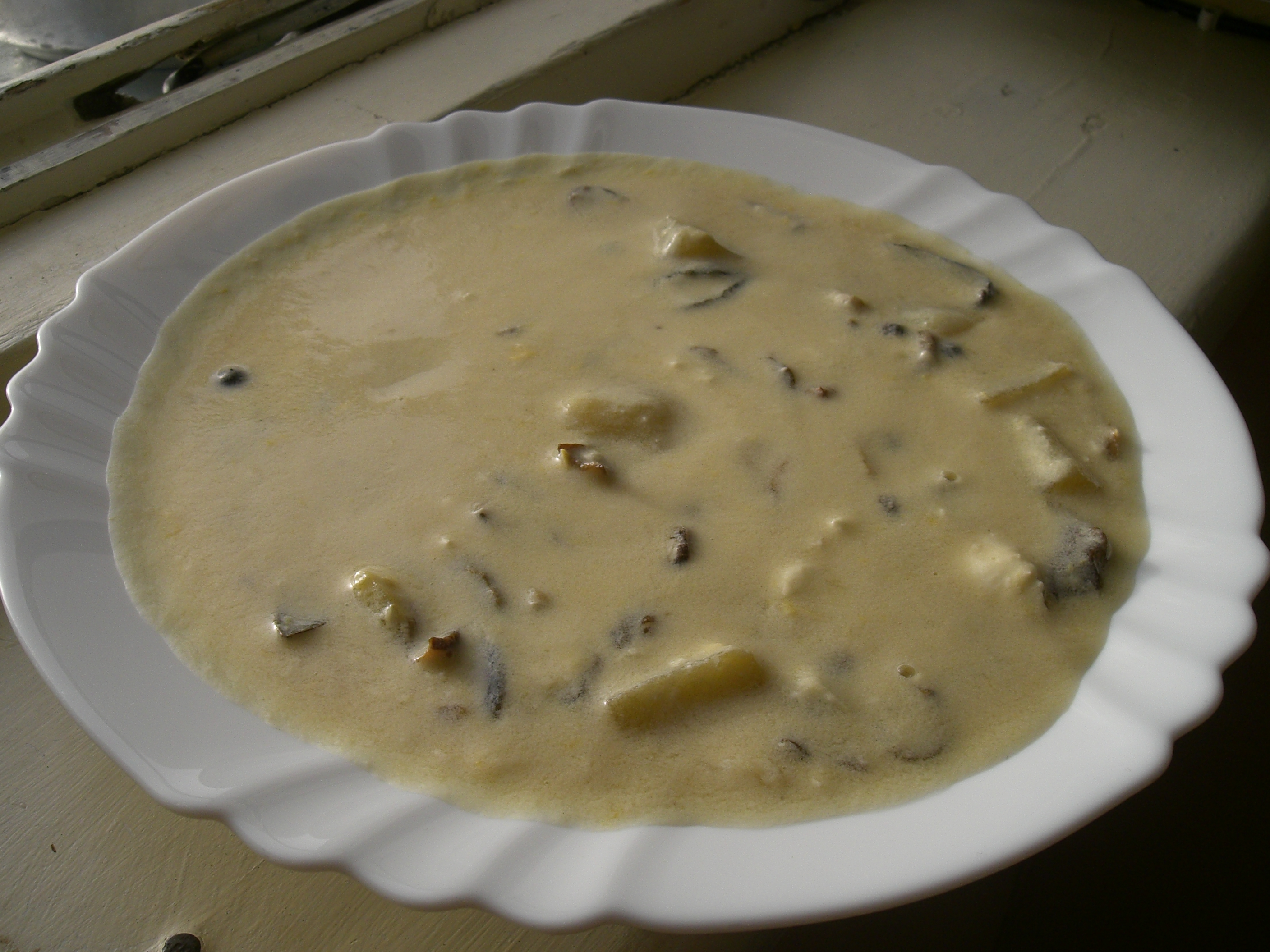 Typical South-Bohemia soup "kulajda".